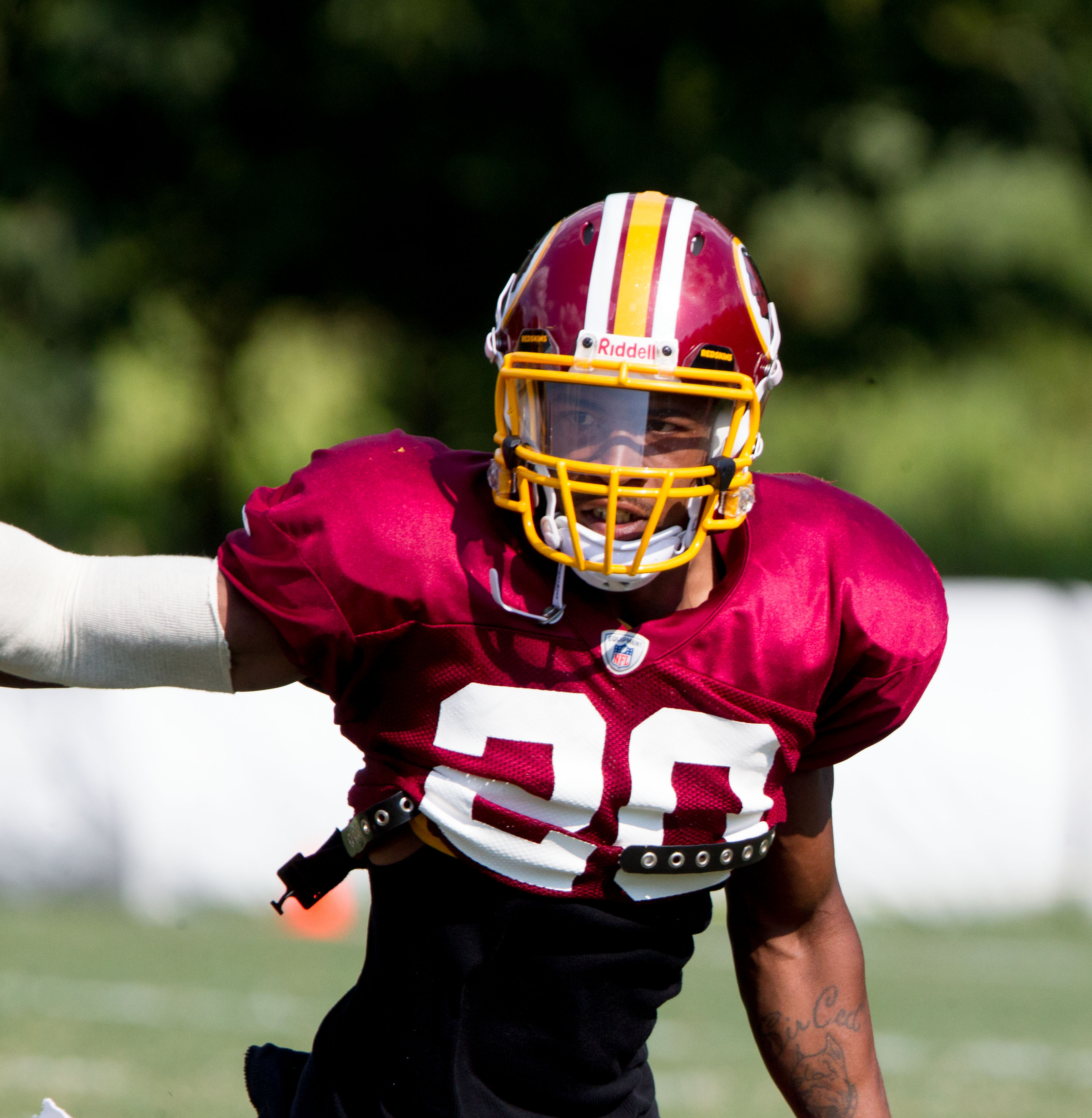 Cedric Griffin at Washington Redskins Training Camp August 13, 2012